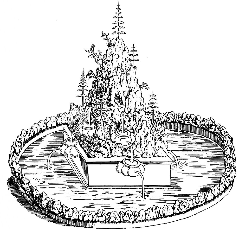 historic sketch of Heidelbergs Hortus Palatinus